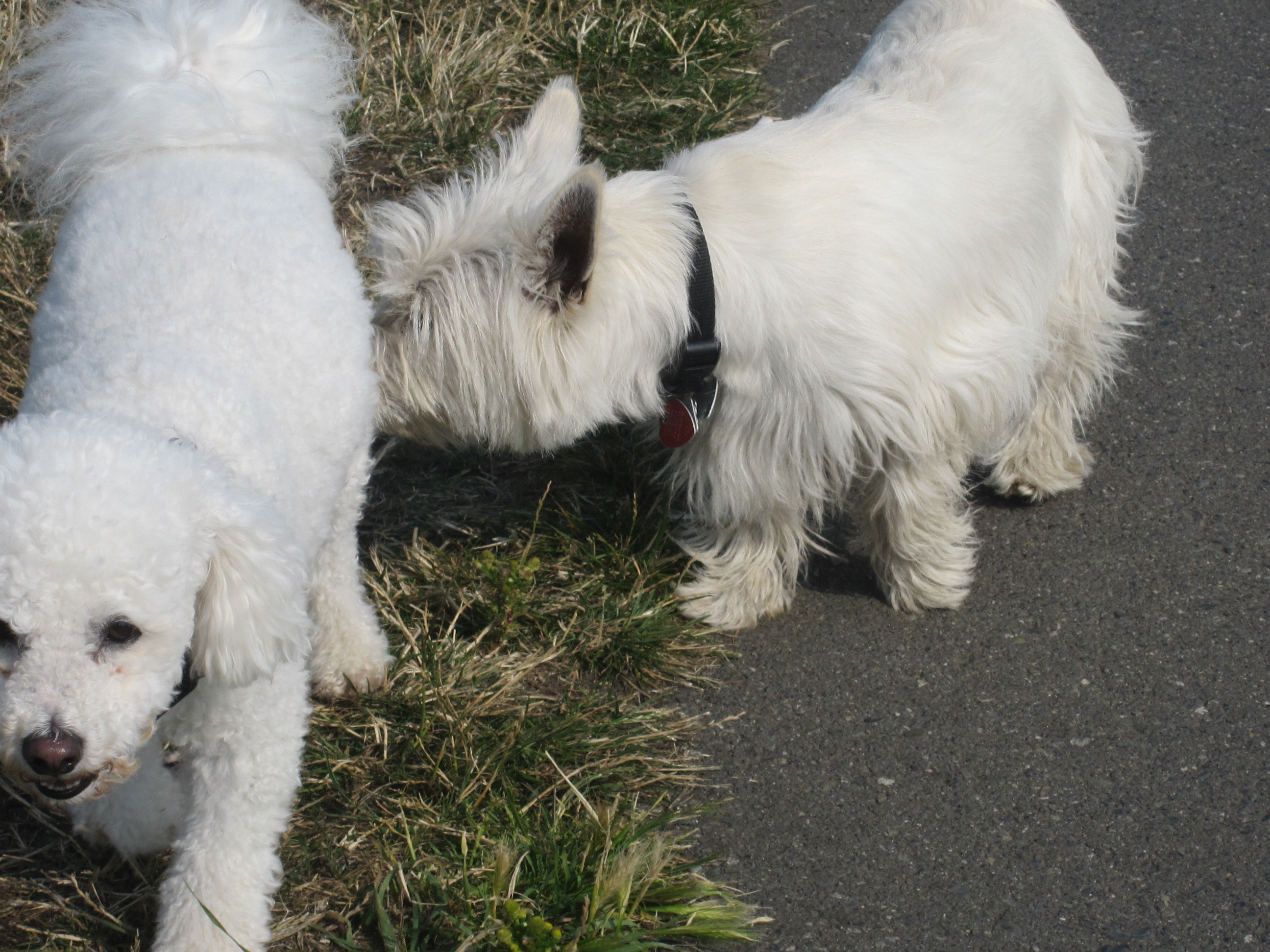 Two small white dogs sniffing each other in Vancouver Island, BC, Canada in 2012.